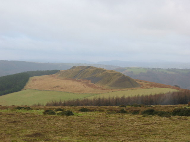 Old spoil heaps above Machen.